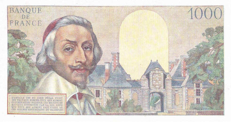 France 1000 francs Richelieu 02